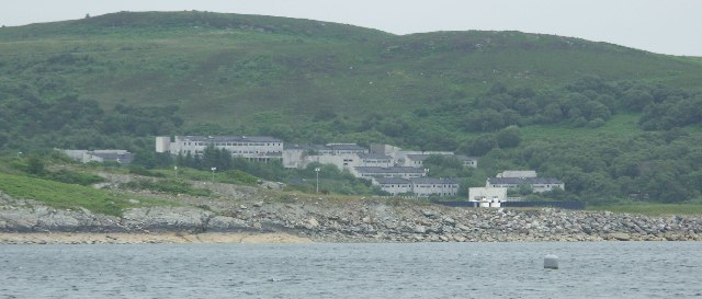 Photographer J. M. Briscoe writes: "This village was built during the North Sea oil boom to provide accommodation for the workers at the construction site nearby in NR9269. The bulk of the village is in NR9369 but the right edge is in NR9368. Picture is taken from Portavadie-Tarbert ferry which is probably in NR9269 or NR9169 when the picture was taken - I arrived just in time to catch the ferry so had no time to explore on shore! The village has never been used since it was built in the 1970s."